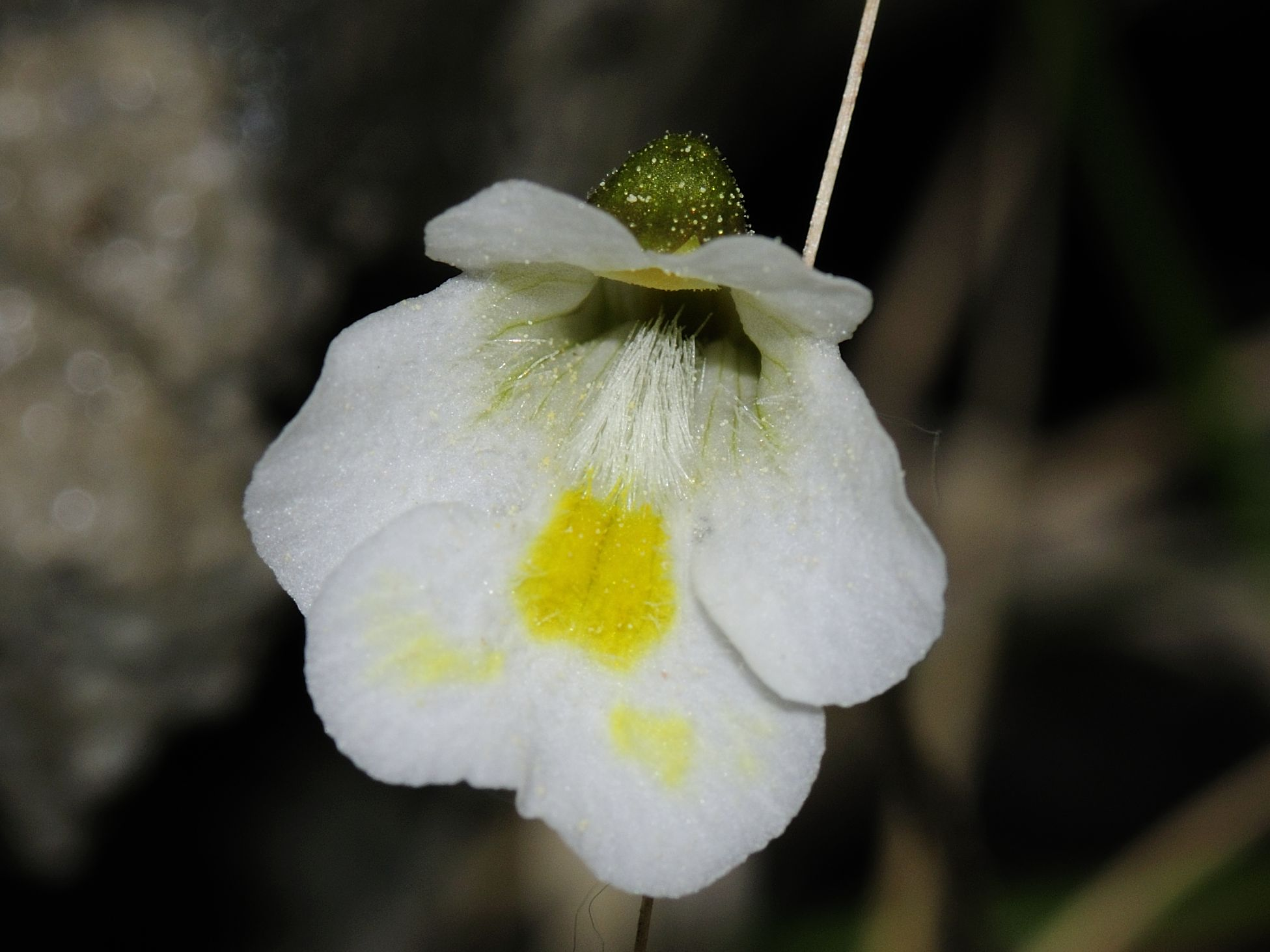 Please report references to .